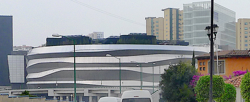 Photograph of the facade for Liverpool store in Interlomas, Greater Mexico City. The stainless steel facade was designed by Rojkind Arquitectos, and engineered & fabricated by Zahner.